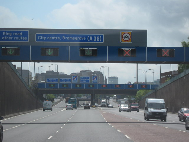 A38(M) For Birmingham - Near The End, Birmingham Skyline